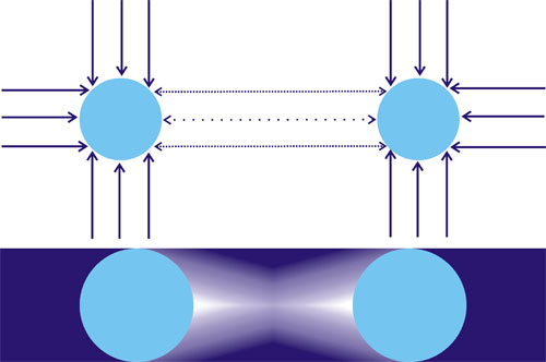 Screening And Shading